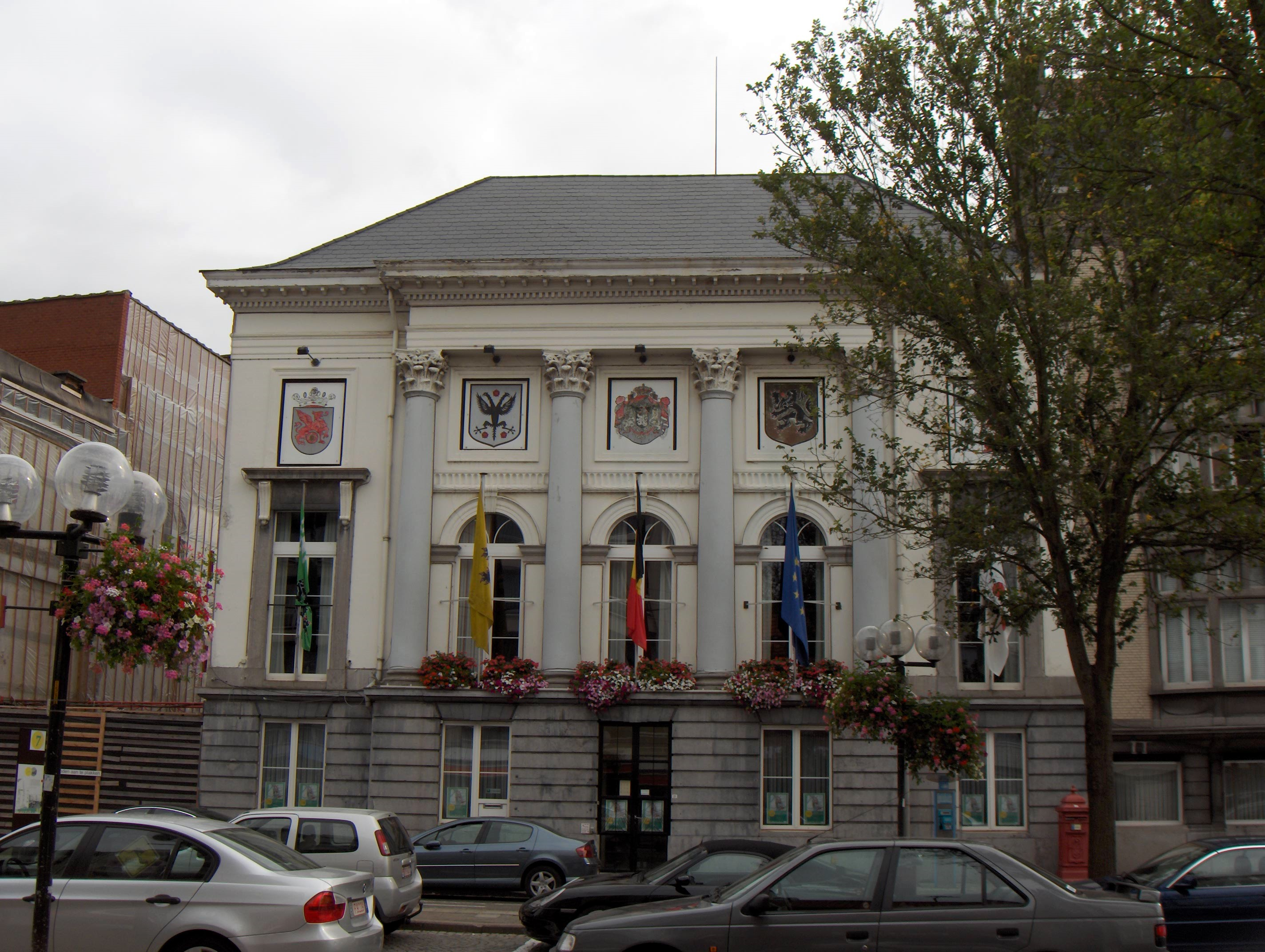 Deinze (Belgium), town hall, mid 19th century